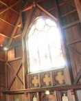 Cropped from a GFDL image by Dean S. Pemberton.